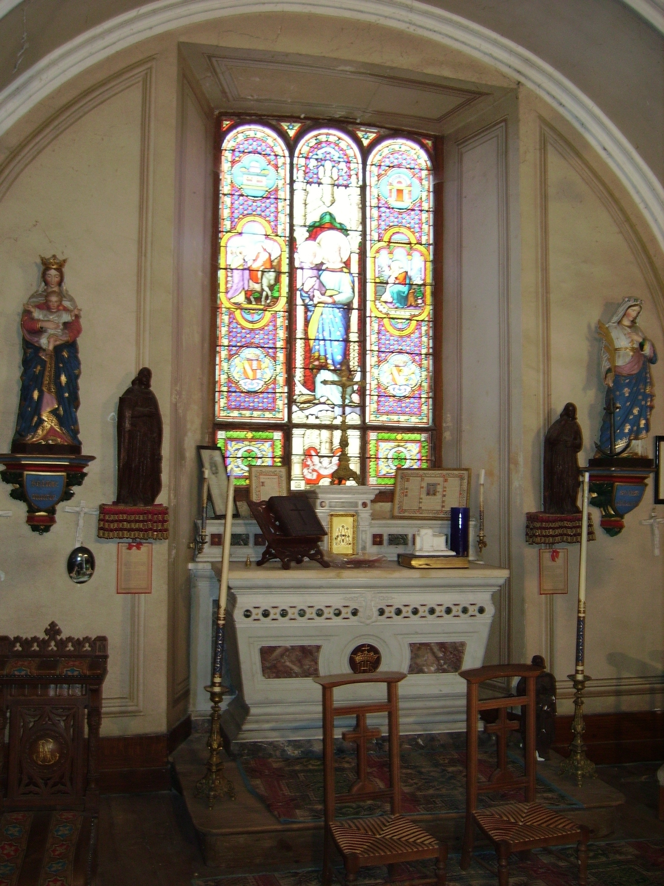 A view of the chapel of maubourg